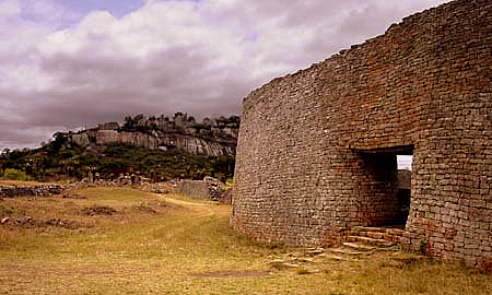 close up, Great Zimbabwe